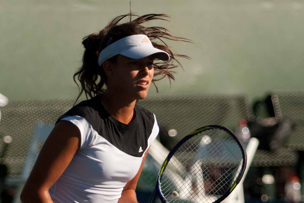 Ana Ivanović practices before her first round match at the Bank of the West Classic 2010